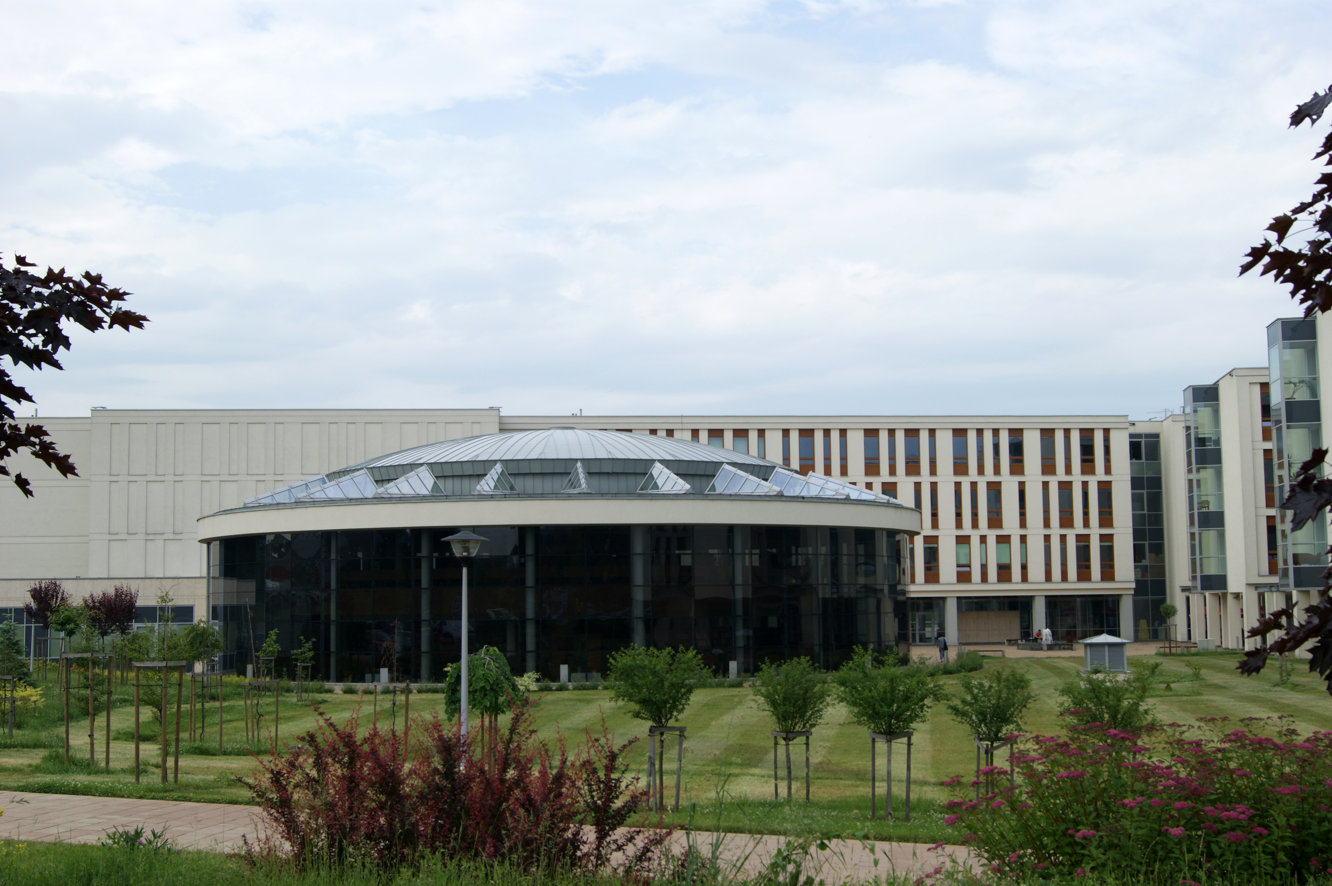 Faculty of Management and Social Communication of the Jagiellonian University & library, 4 Lojasiewicza street, Krakow, Poland